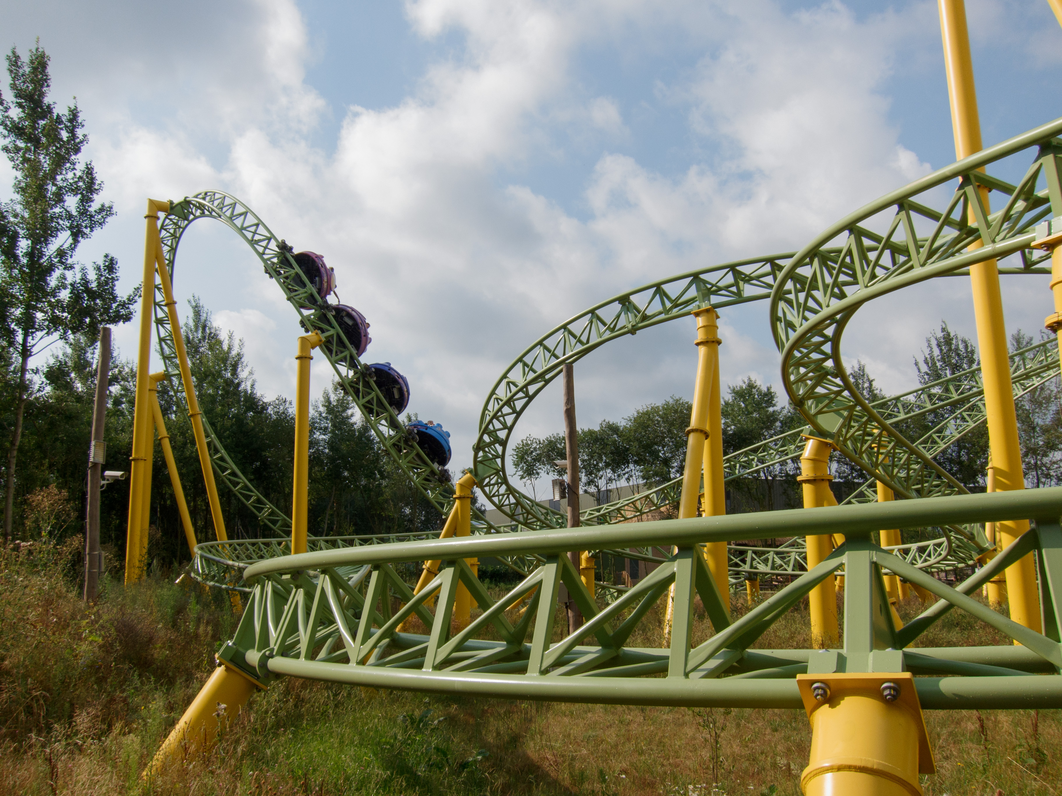 Spinning roller coaster Dwerwelwind at amusementpark Toverland, Sevenum, Netherlands